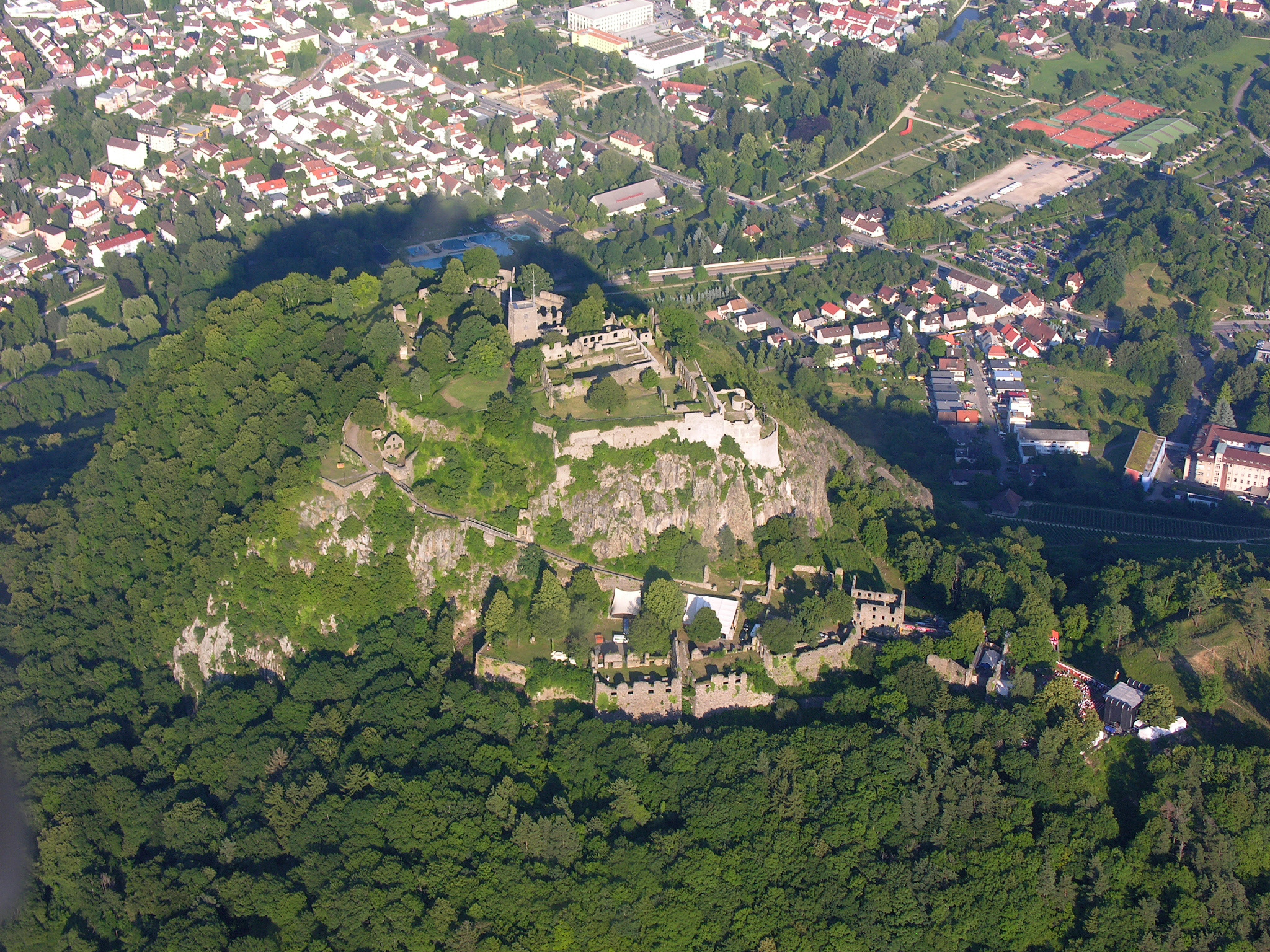 Aerial View of Hohentwiel